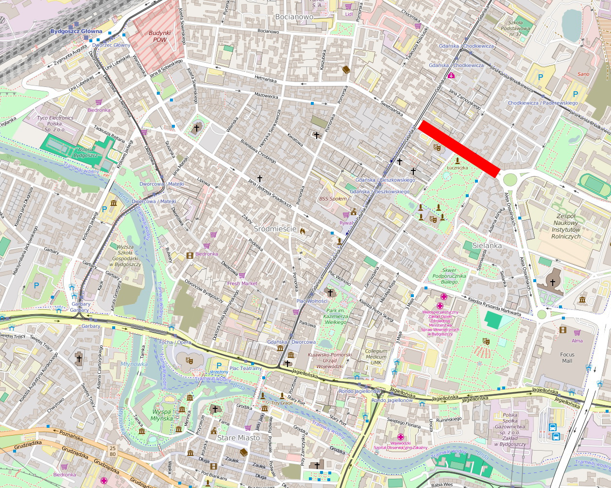 Map Bydgoszcz Zoom Mickiewicz alley